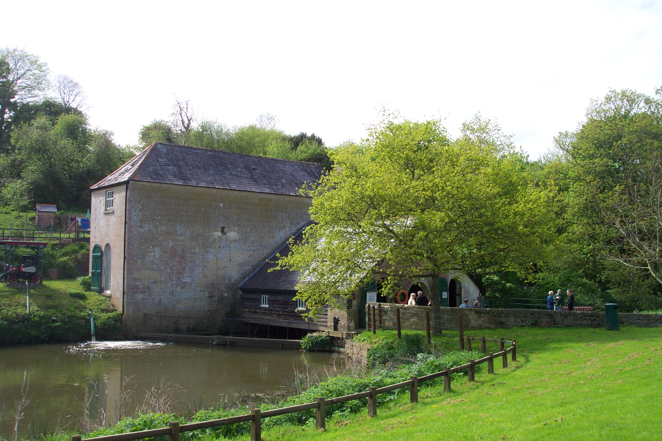 The exterior of Claverton Pumping Station, on the River Avon and Kennet and Avon Canal, in the county of Somerset in England. For more information see the Wikipedia article Claverton Pumping Station.